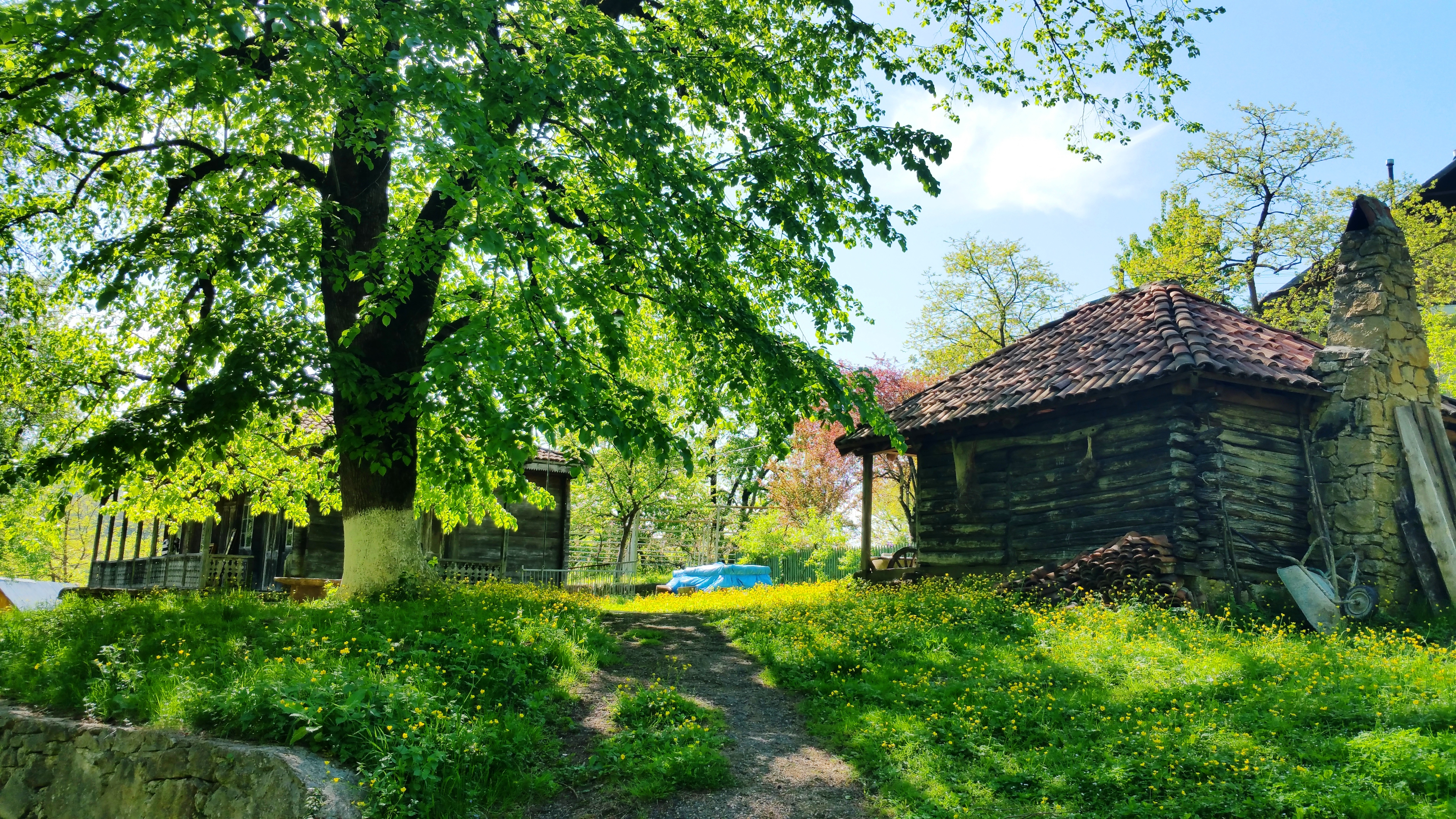 Ghoresha Ethnographic Museum and Sergo Orjonikidze House-Museum